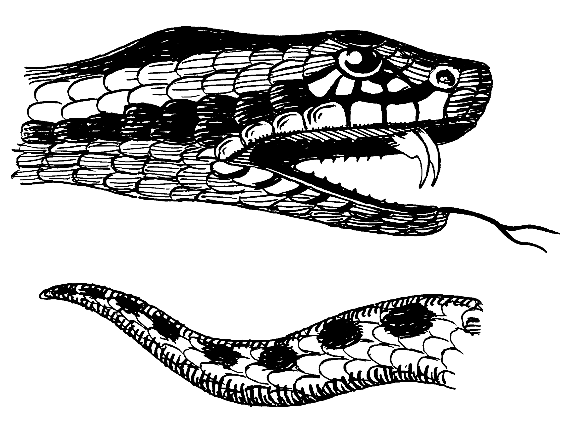 Line art drawing of the head and tail of a European adder.